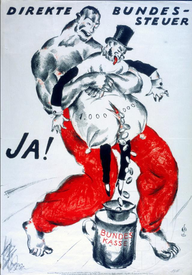 Advertisement for swiss votation of 1918 regarding the introduction of a direct tax